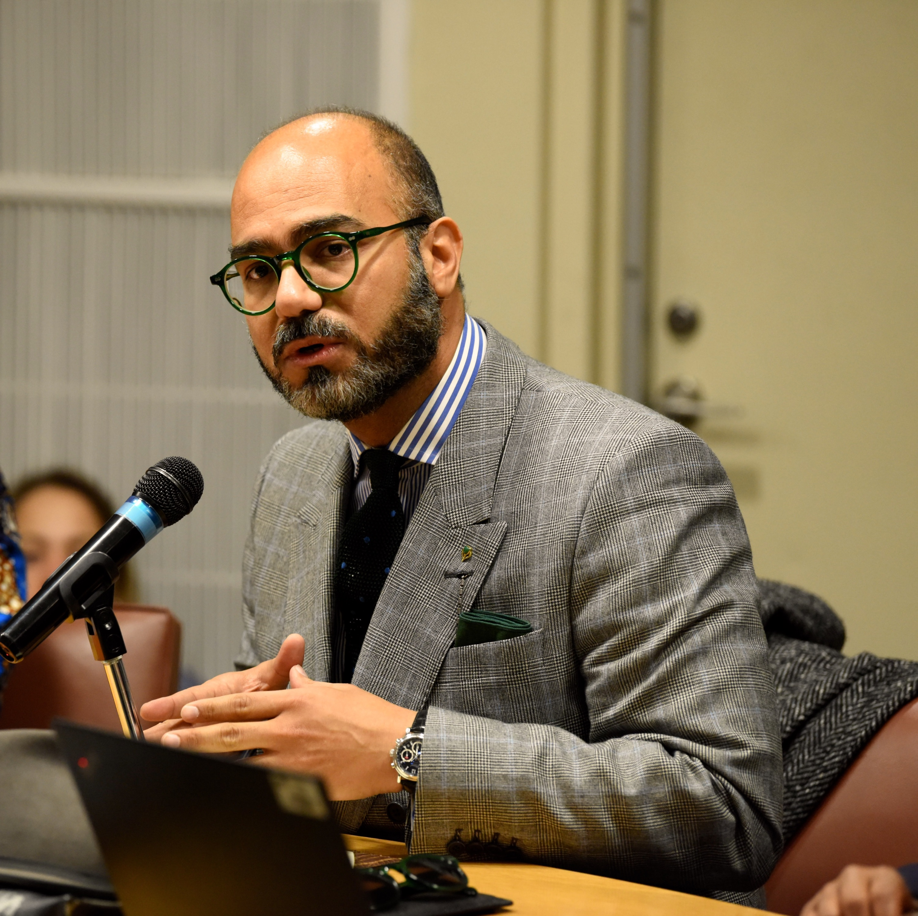 Mohammad Naciri, the regional director of UN WOMEN Arab States, at the Commission on the status of women, UN secretariat, March 2018.